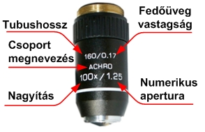 Microscope objectiv.